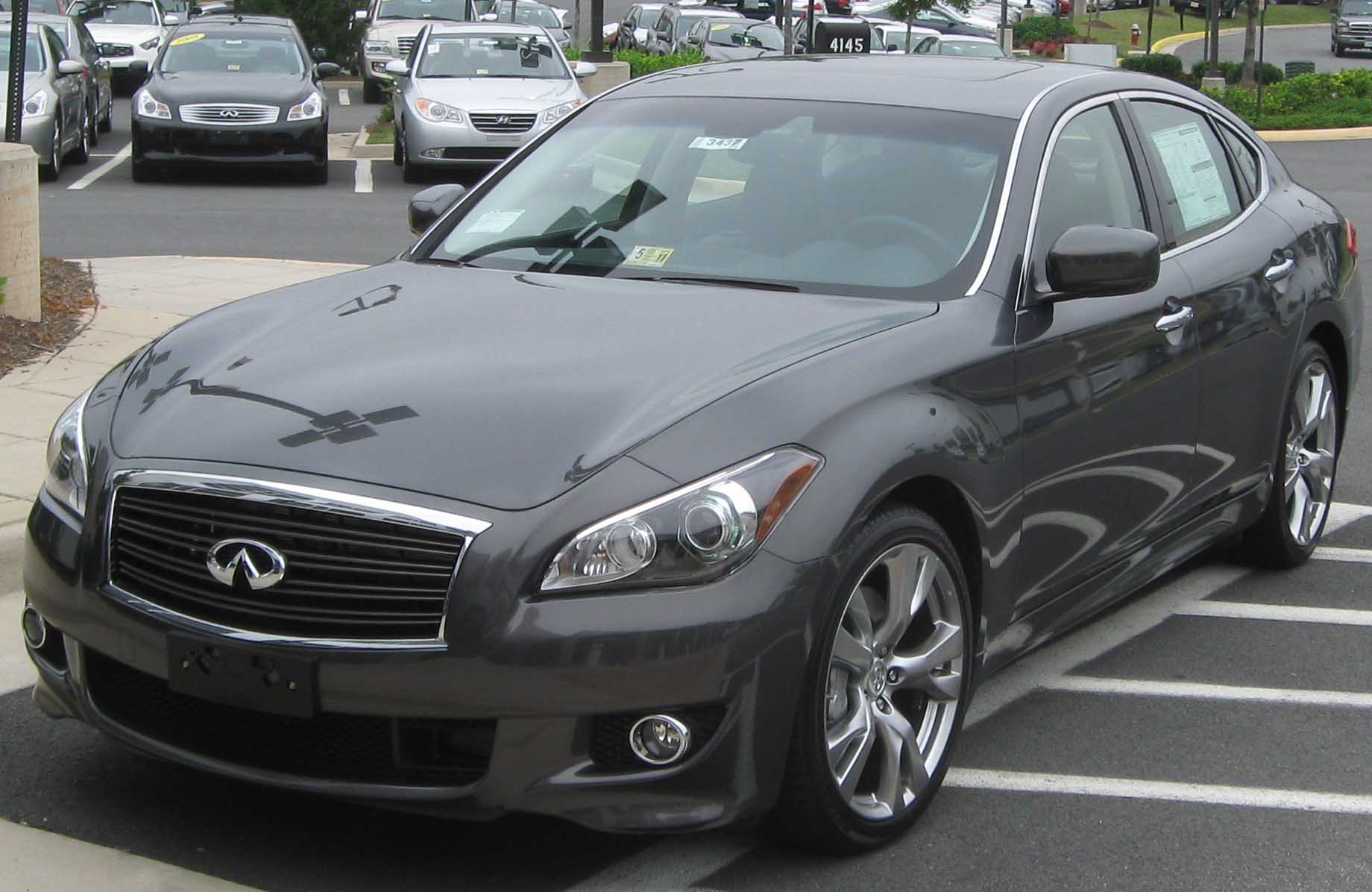 2011 Infiniti M56S photographed in Chantilly, Virginia, USA.